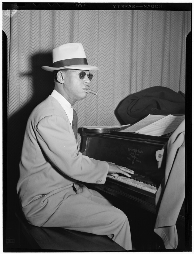 Earl Hines 1947. Photography by William P. Gottlieb.